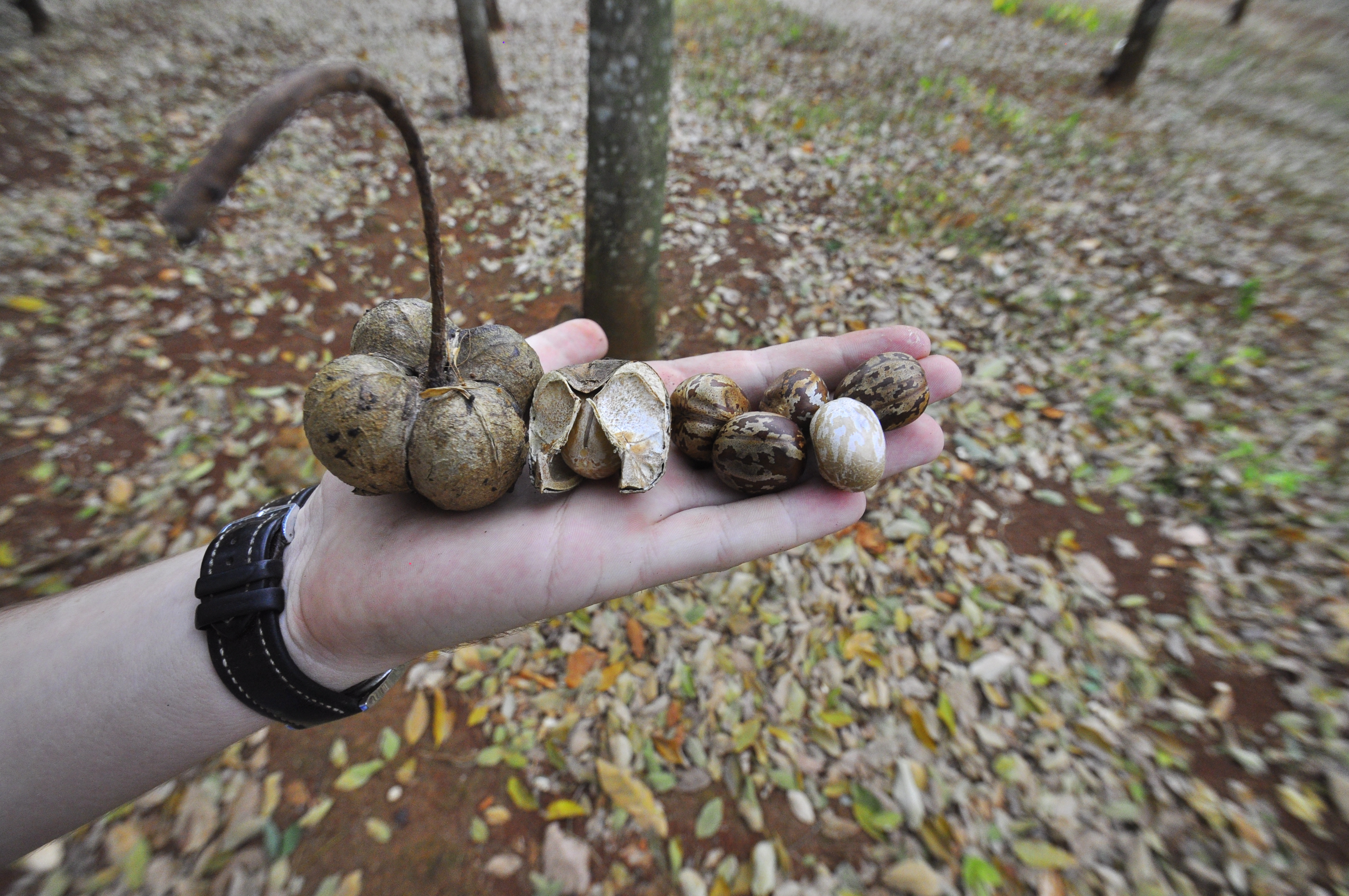 Nuclei of a rubber tree